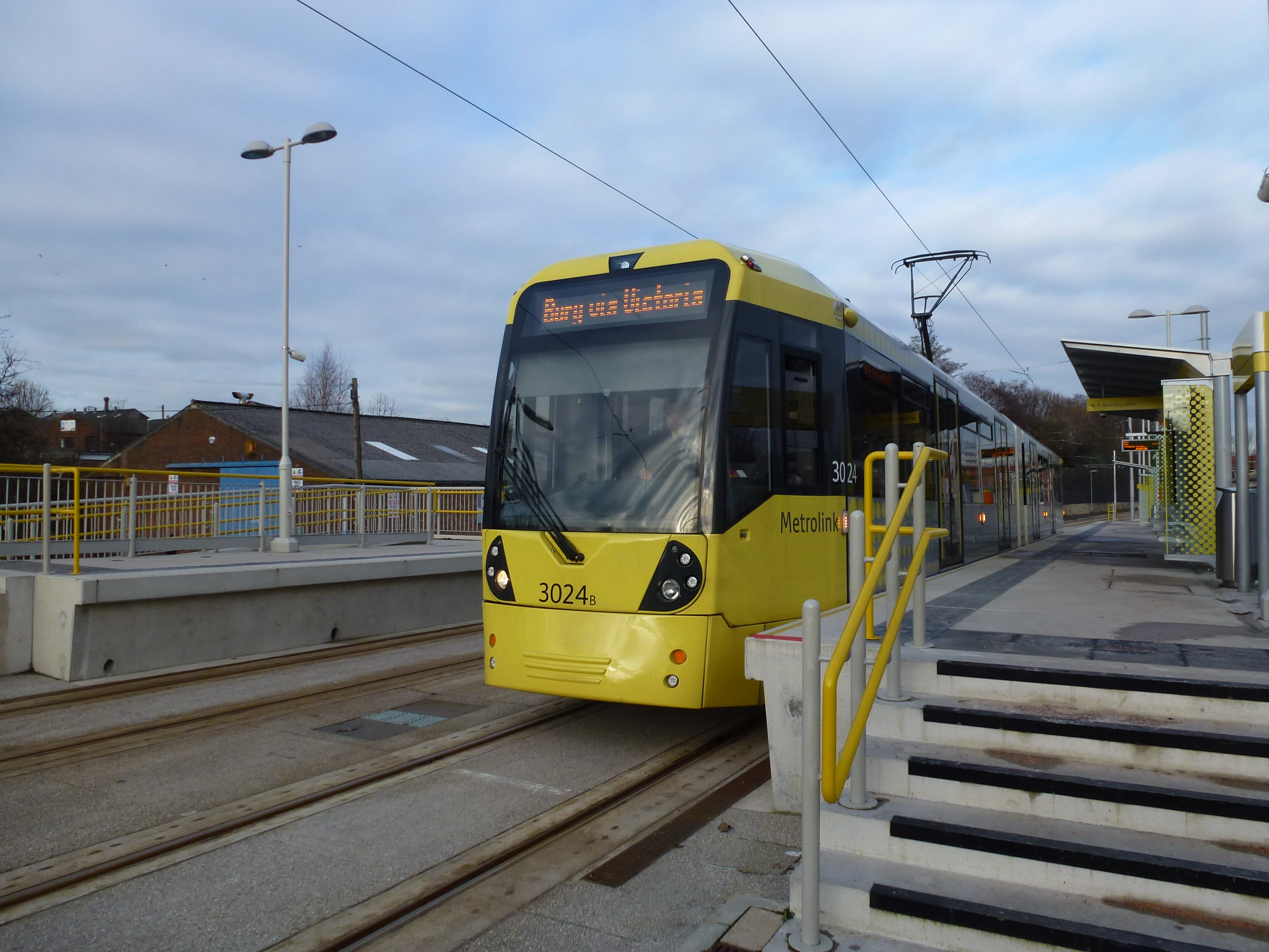 Holt Town Metrolink station serves nearby Beswick and is within a stones throw of New Islington and Etihad Campus. Taken on Saturday 16th February